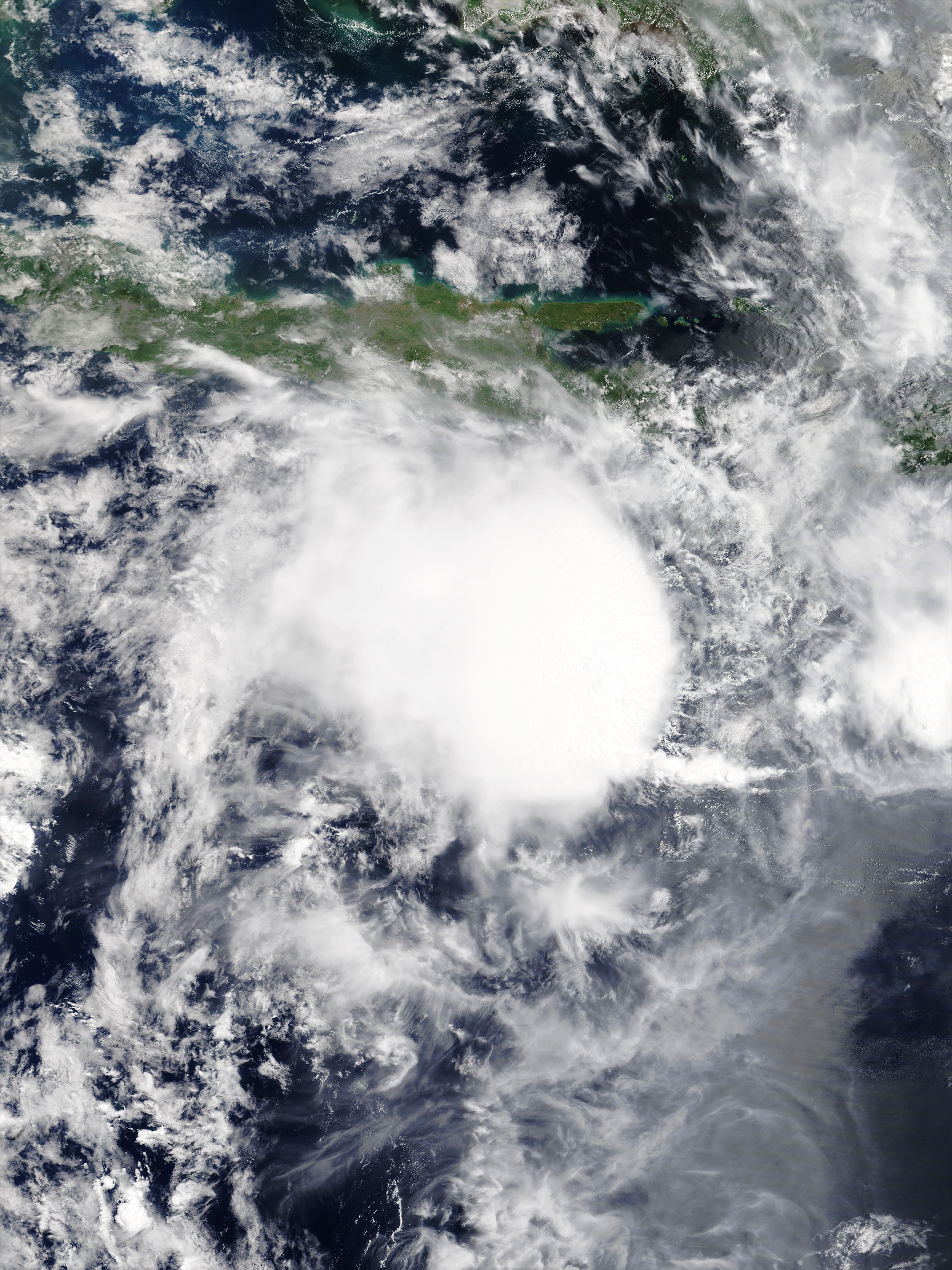 Tropical Low 17U over the eastern Indian Ocean, just south of Java, on 8 March 2019. The system would go on to become Severe (Intense) Tropical Cyclone Savannah.